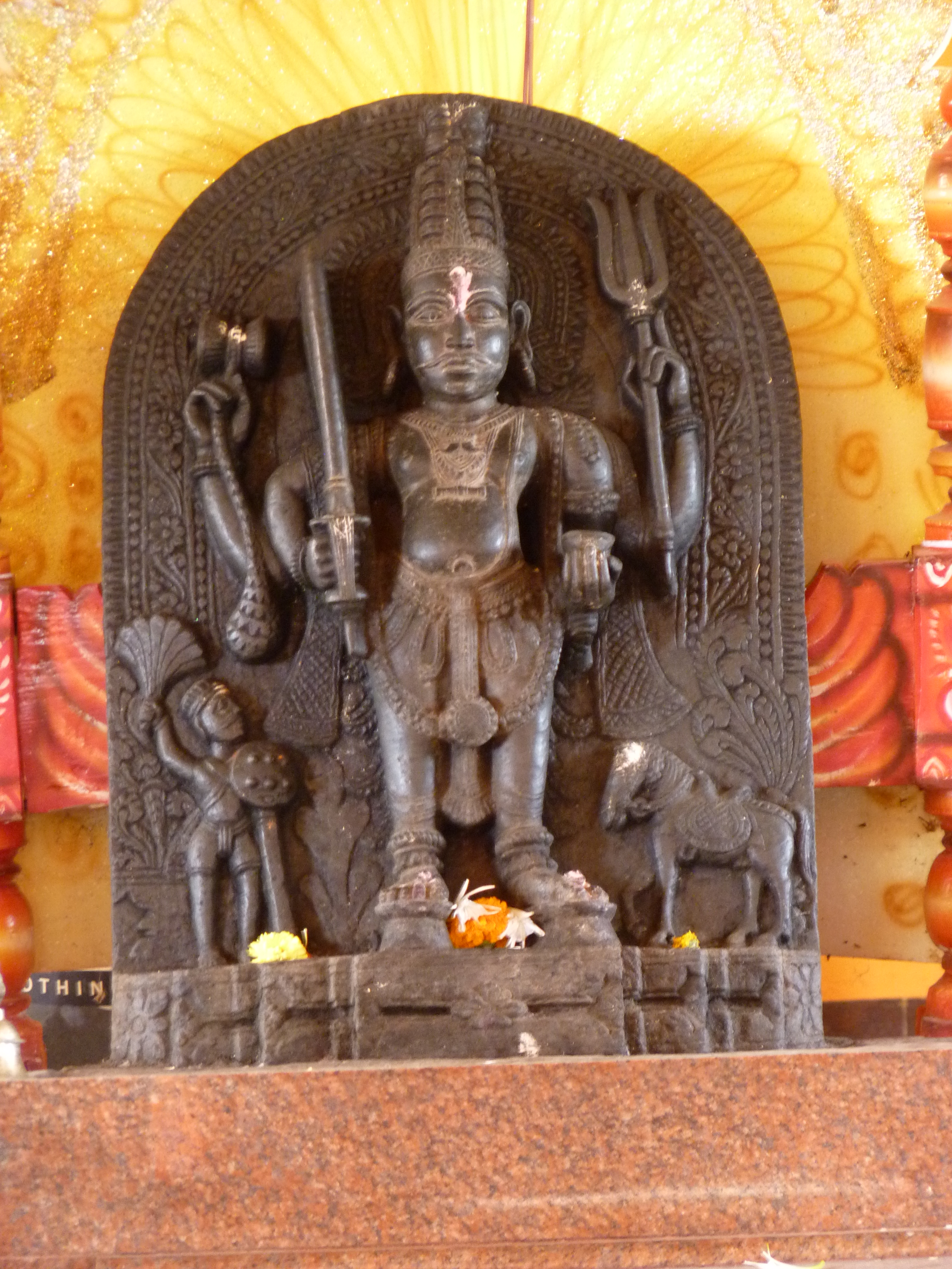 Shri Ravalnath murti, holding damaru in one hand and trishul in other. Other hand holds sword(khadga) and a vessel.